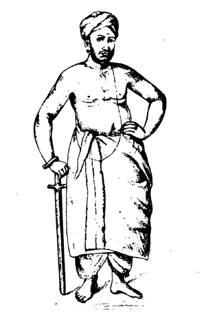 Illustration of Rama Iyen Dalawa used in A History of Travancore from the Earliest Times. File is a scan copy of the source page and edited with Adobe Photoshop 7.0